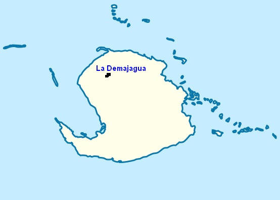 A locator map of the village of La Demajagua (shown in black) within the Isla de la Juventud, Cuba.